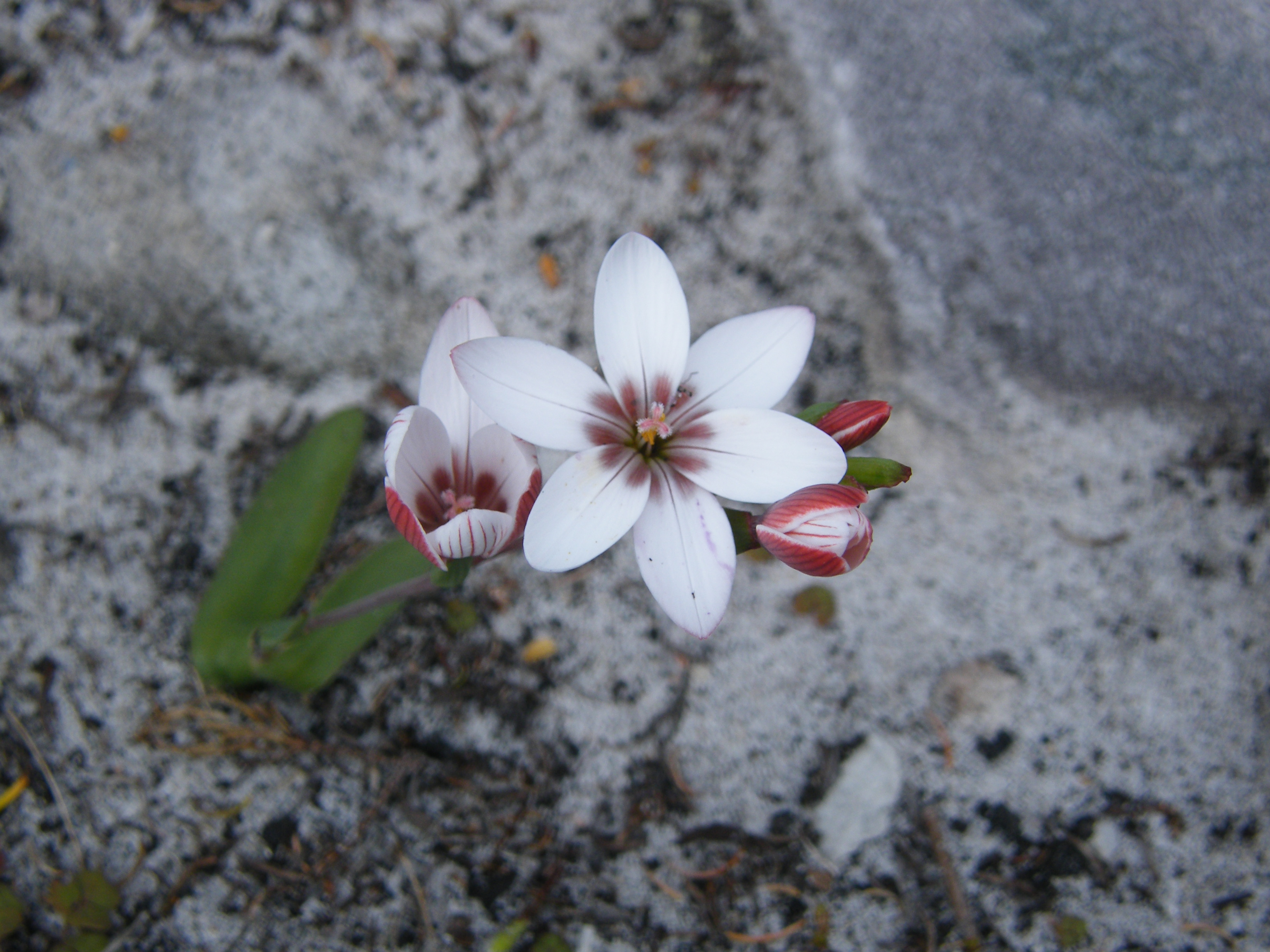 Cape Point Cape Town